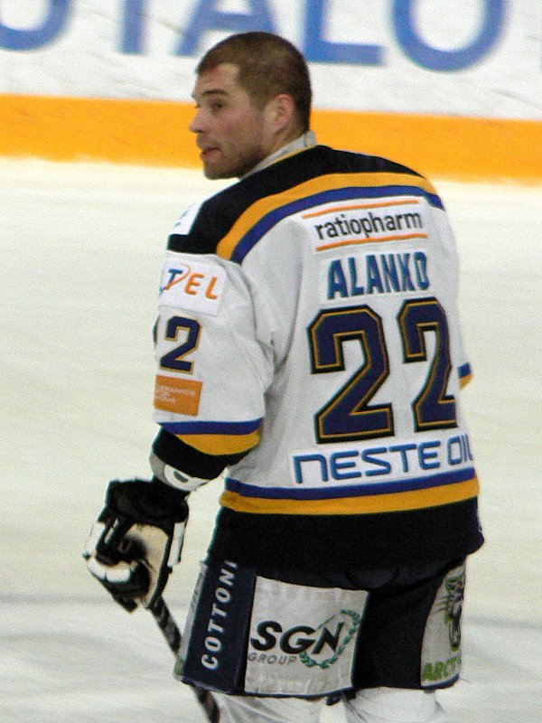 Finnish ice hockey defenseman Rami Alanko playing for Espoo Blues in February, 2008.